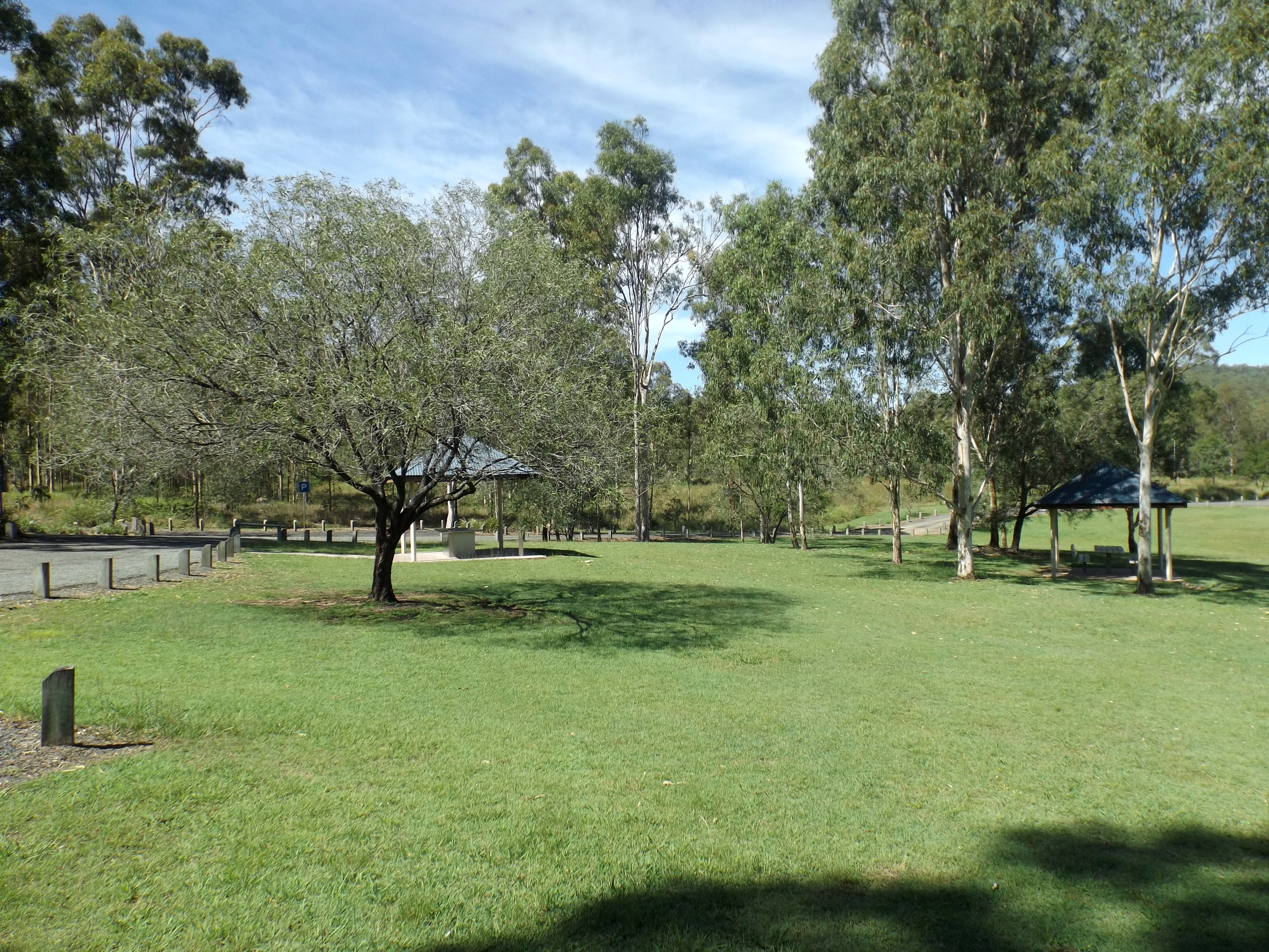 Picnic facilities at Hardings Paddock Picnic Area at Goolman, City of Ipswich, Queensland, Australia.